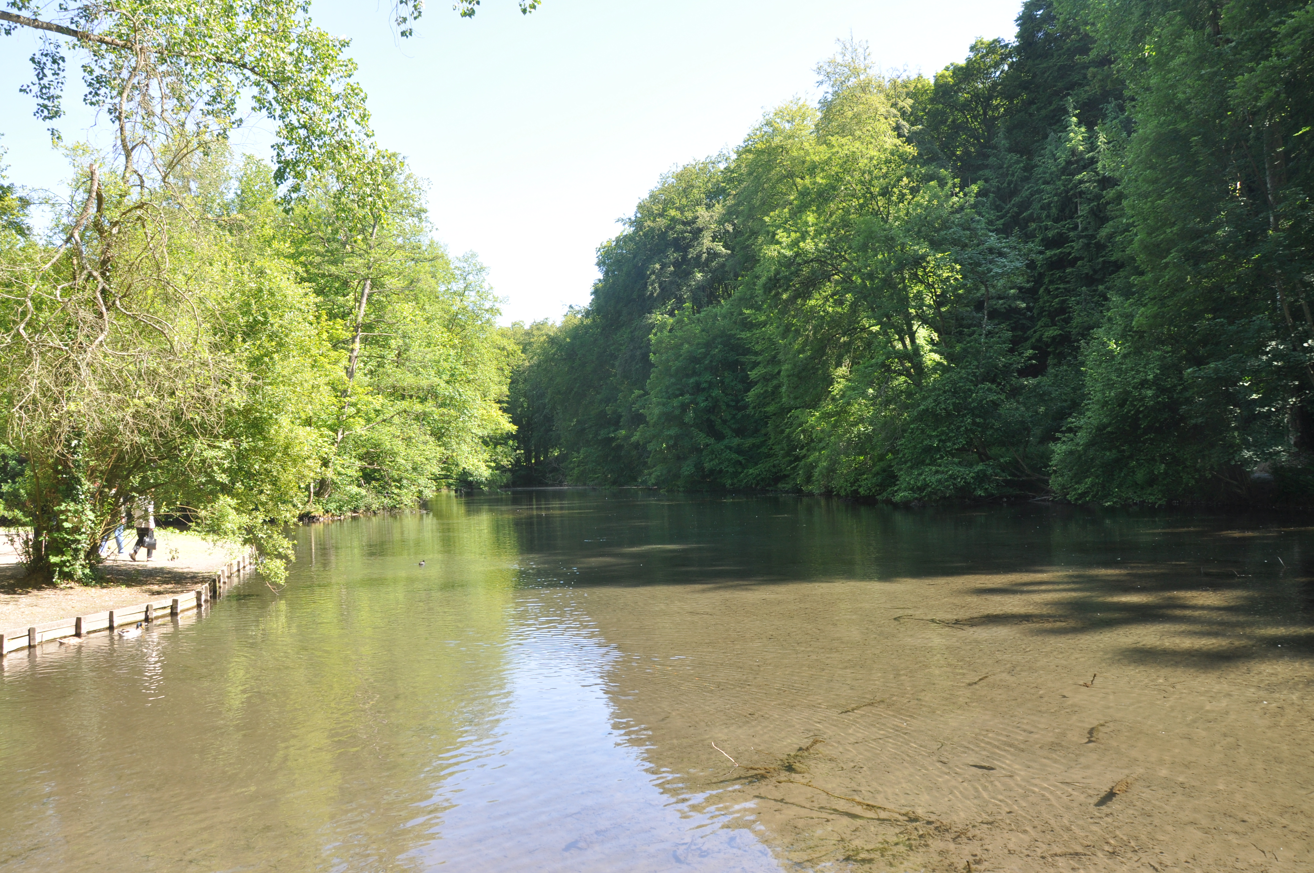 Valmont (France, Normandy), Valmont River